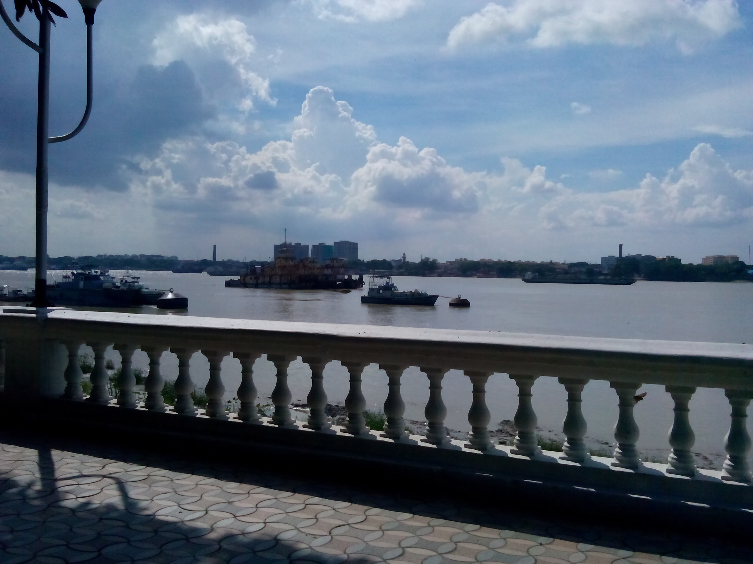 Hoogli river in babu ghat